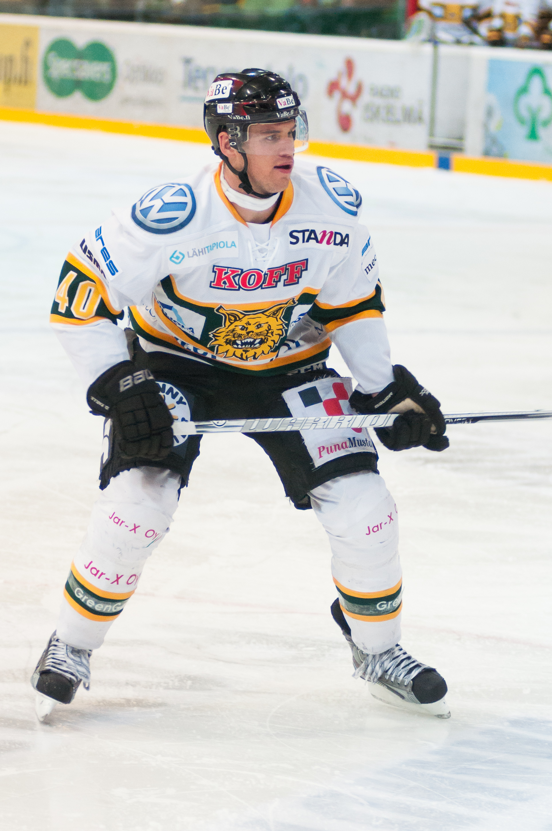 Canadian ice hockey left winger Daniel Paille playing for Tampereen Ilves against SaiPa Lappeenranta in Lappeenranta, Finland.